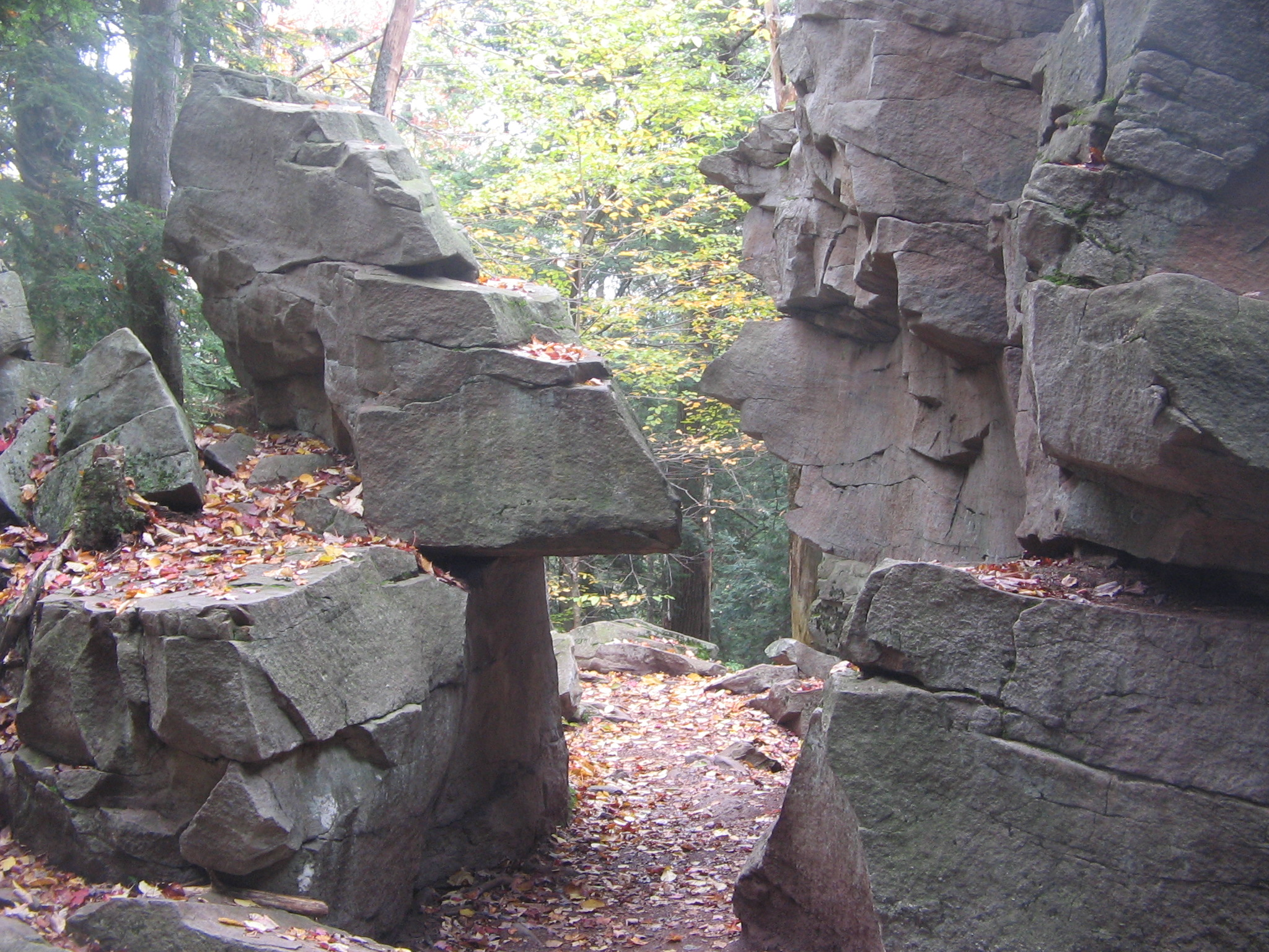 Midway Crevasse on the Highland Trail at Ricketts Glen State Park, Luzerne County, Pennsylvania, USA.